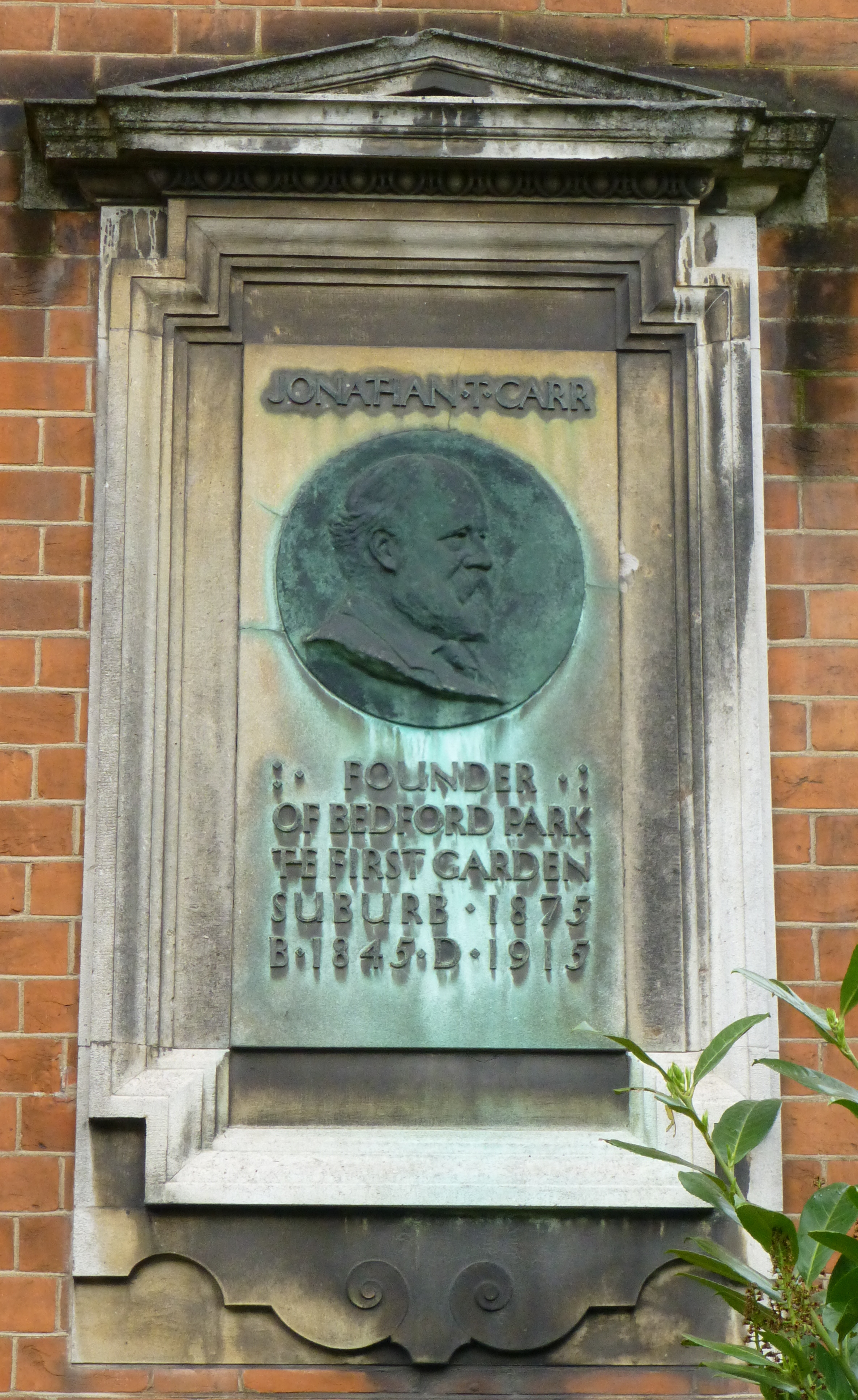 Plaque on the Church of St Michael and All Angels, Bedford Park, London, commemorating Jonathan T. Carr, founder of Bedford Park, the first garden suburb, in 1875.